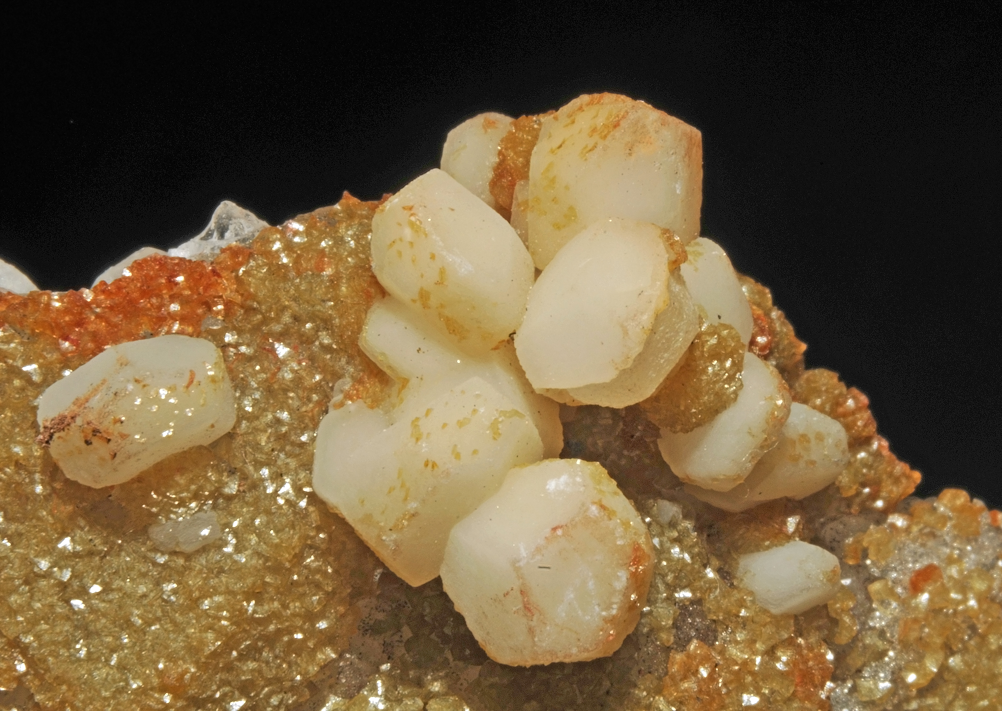 crystals of leucite, crystals of quartz : Lages, Santa Catarina, Brazil